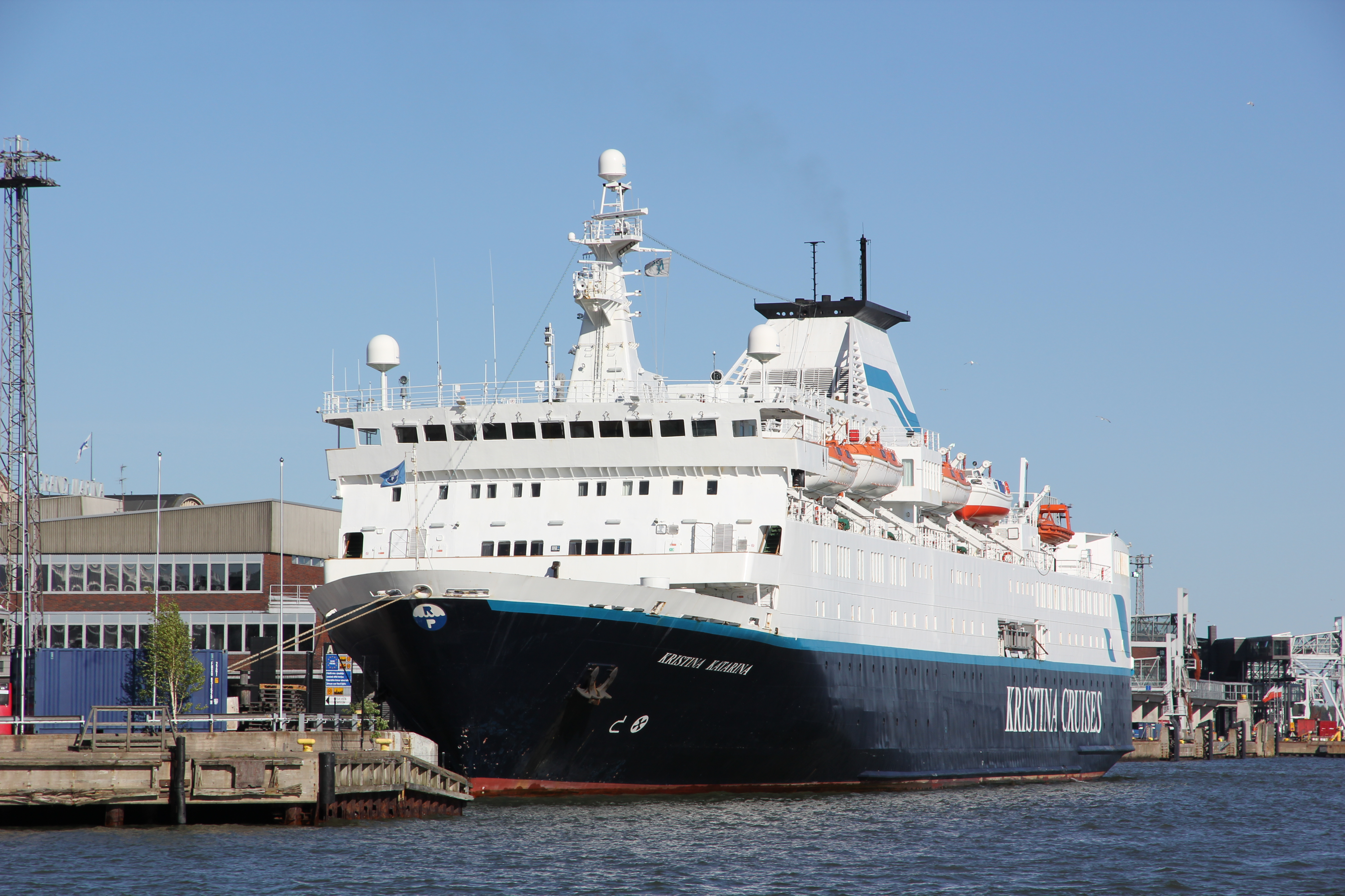 Cruise ship Kristina Katarina in Helsinki South Harbour.